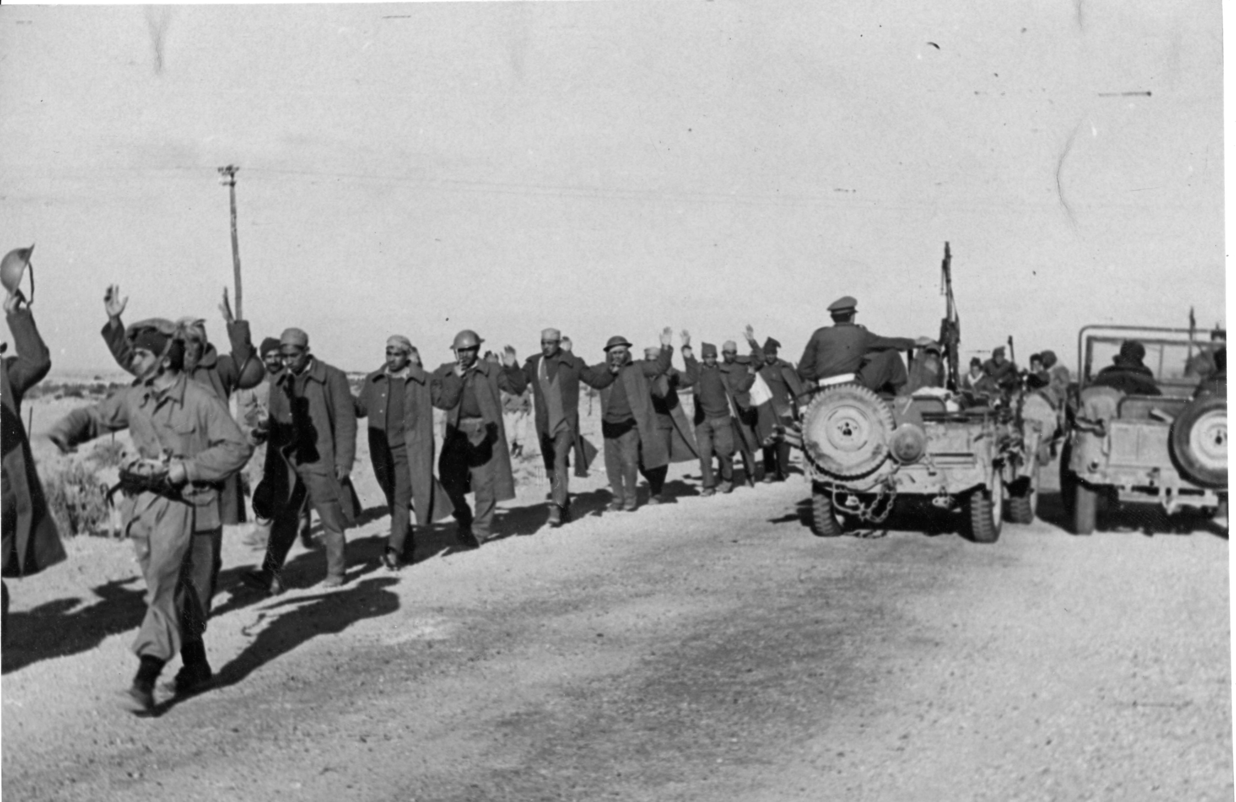 The Palmach, Israel Defense Forces